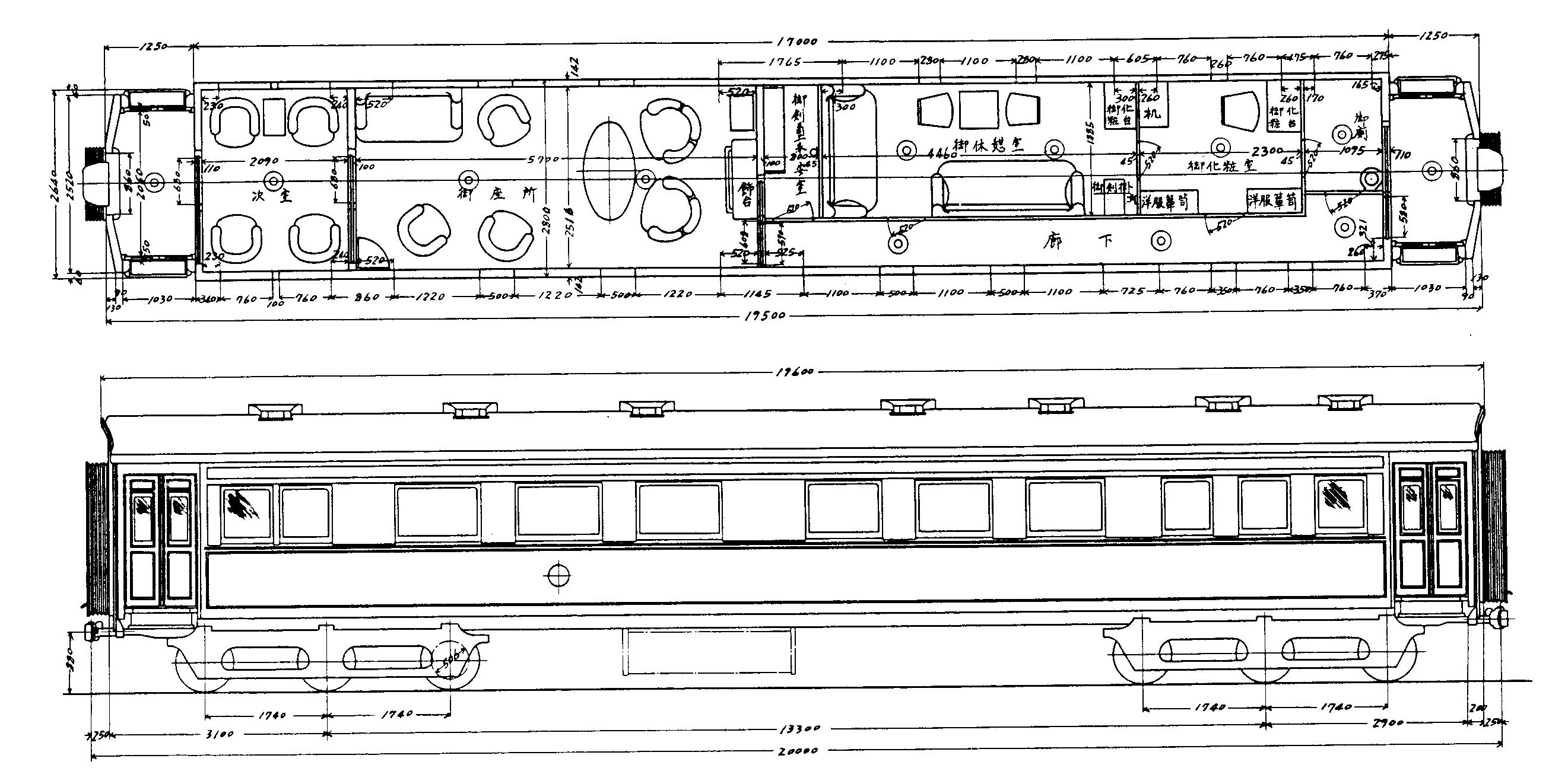 Type drawing of JGR's Imperial Car (Goryosha) No.1 (2nd)